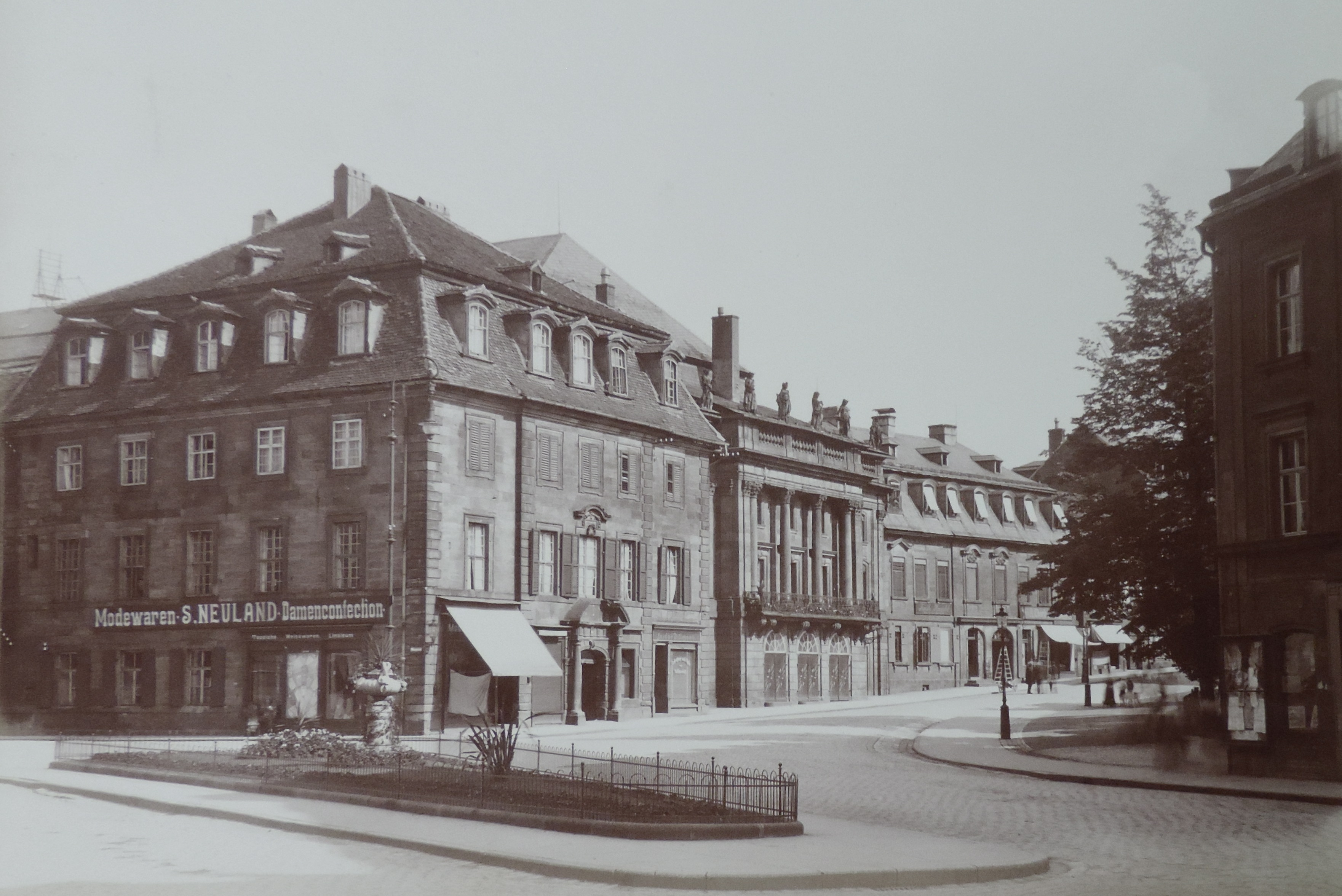 Views and photos of Bayreuth, Germany, gifted to Ferdinand I of Bulgaria to commemorate his 25-year rule. A house from 1759 on Opernplatz.